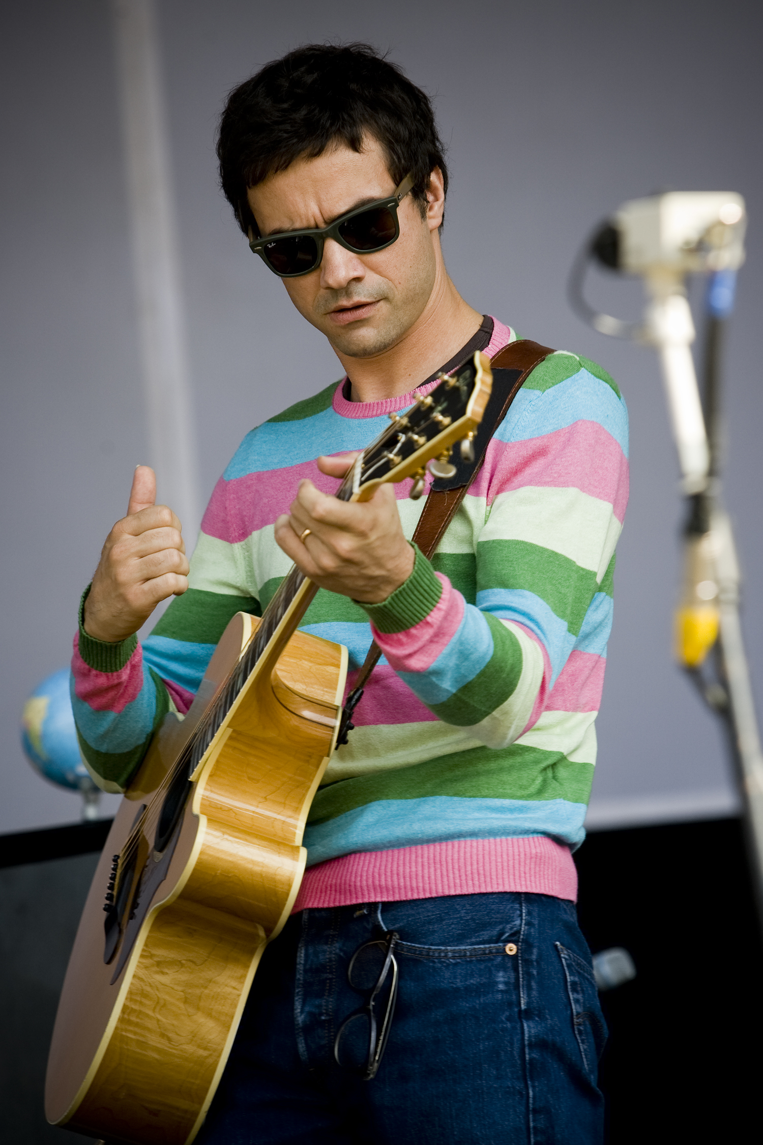 David Fonseca, Sound check em avis city